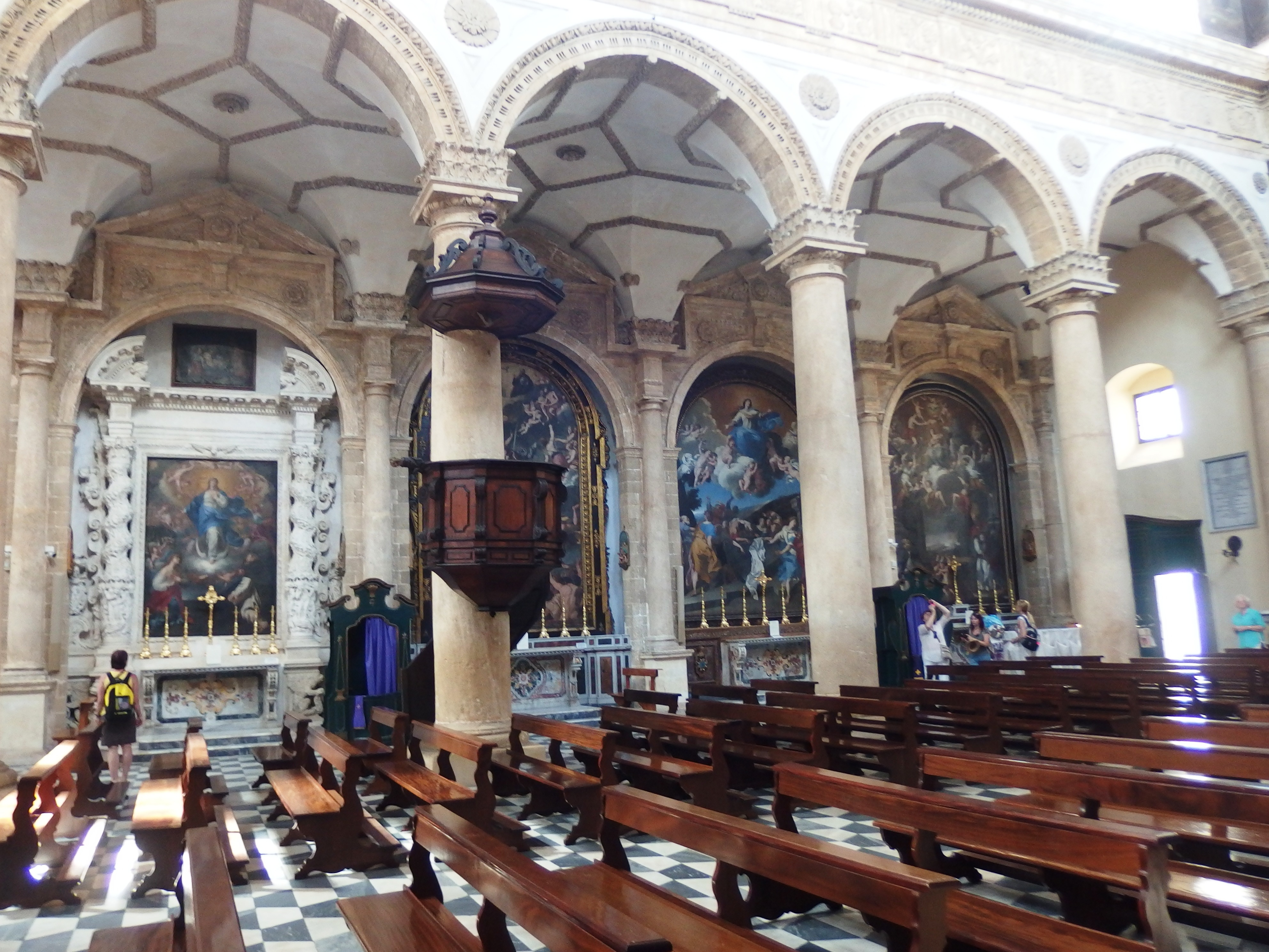 Gallipoli, Apulia, Italy. Cathedral.